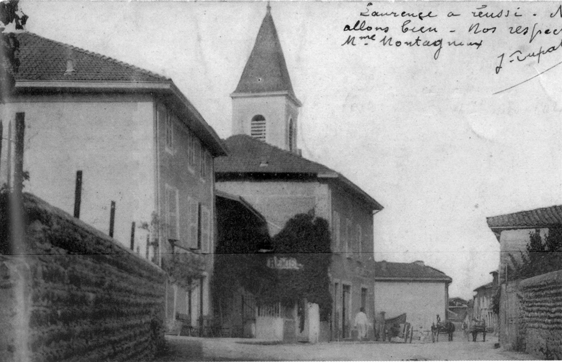 Saint-Barthelemy, 1906